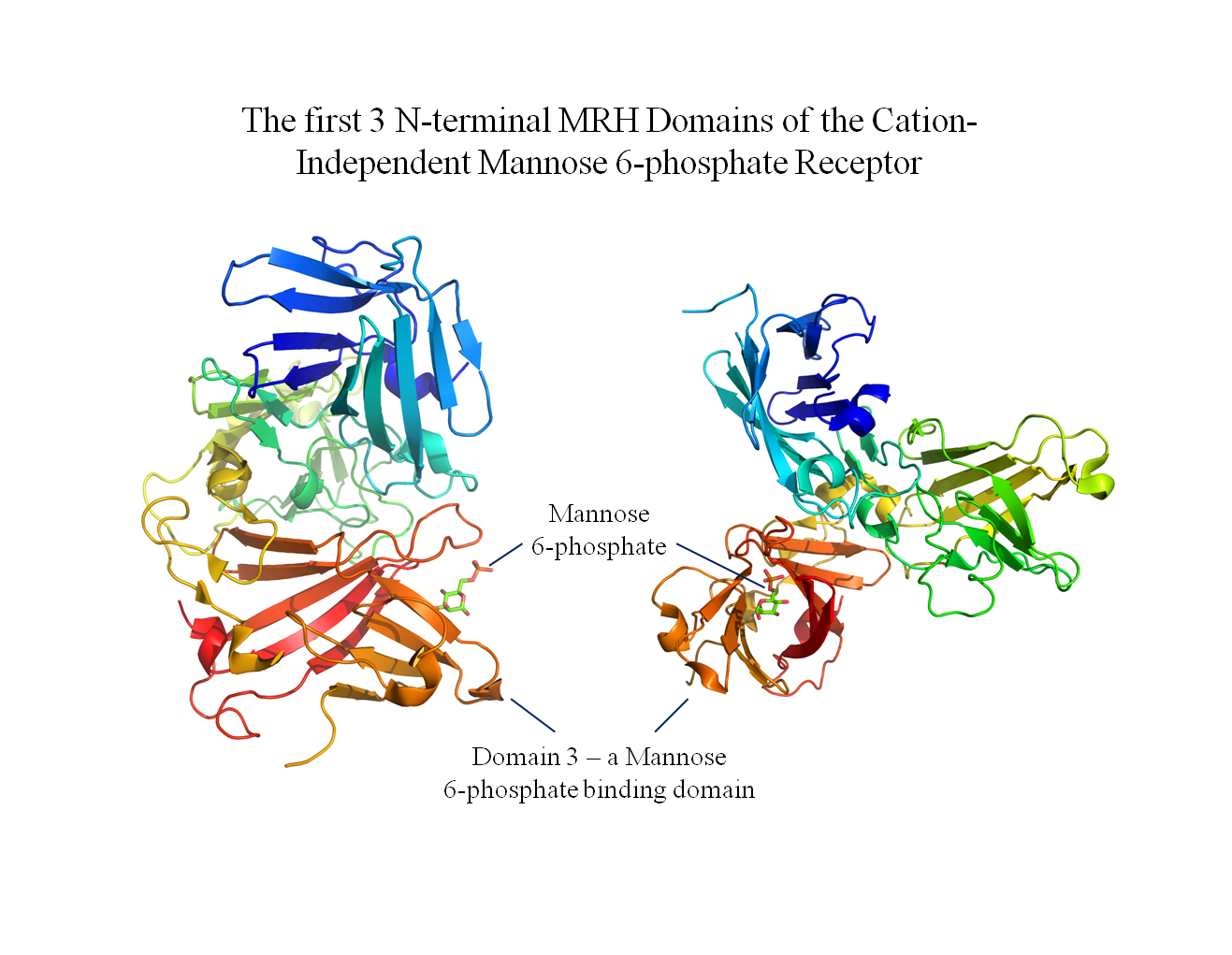 This image has been generated using PyMol. It shows how the first 3 N-terminal domains of the cation-independent receptor bind to mannose 6-phosphate.